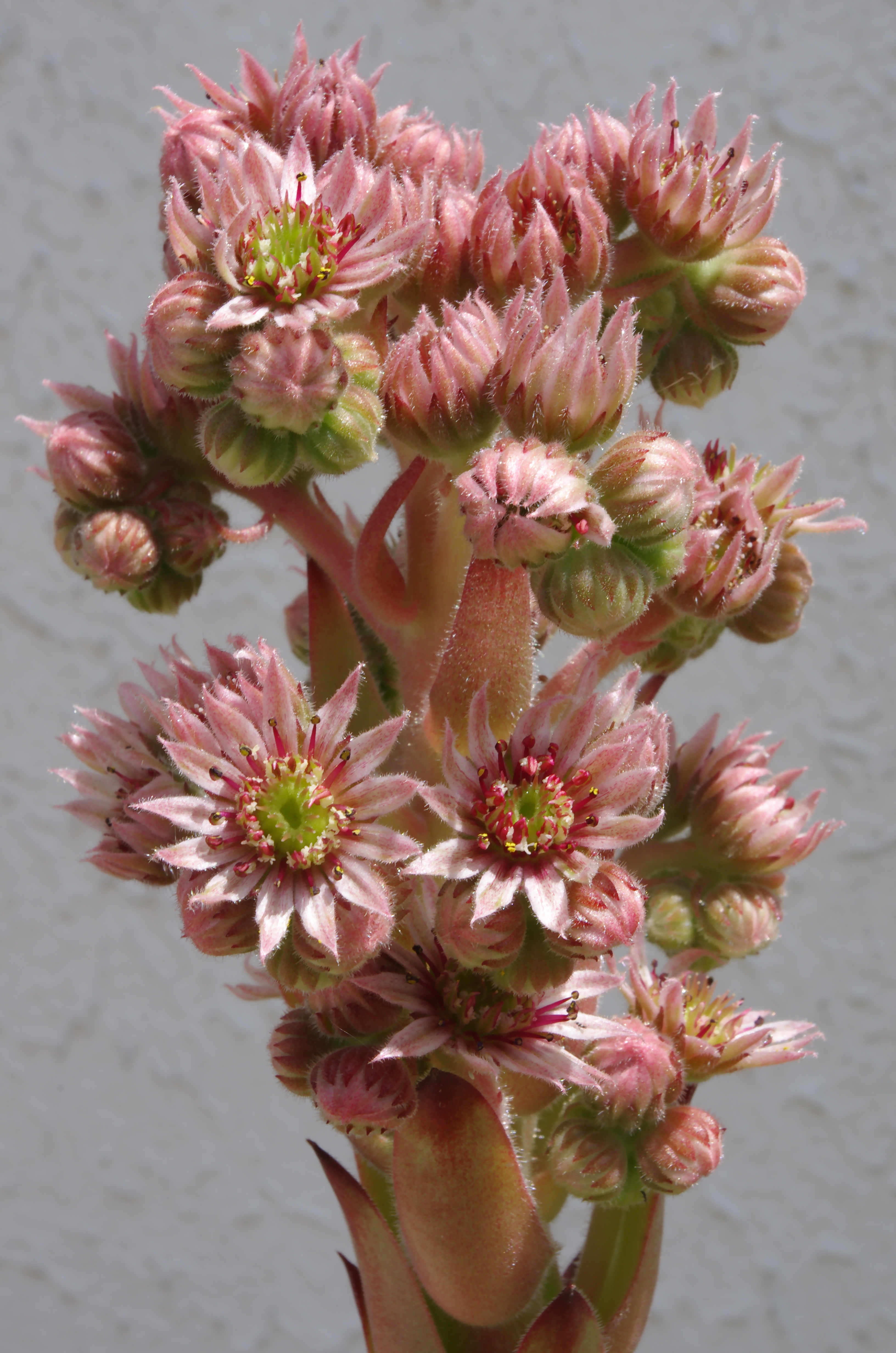 Common houseleek (Sempervivum tectorum), inflorescence, in a garden, France.